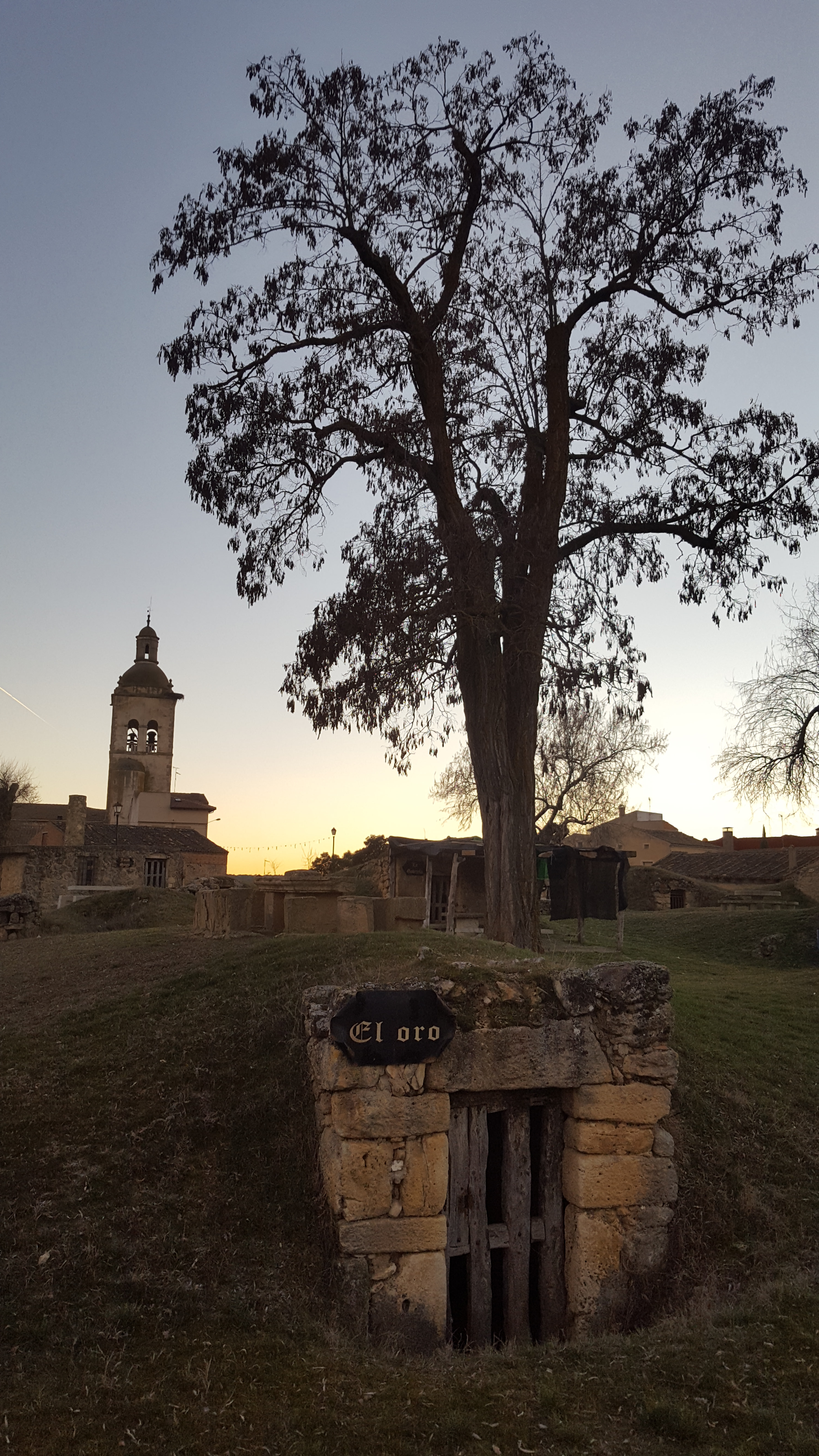 Bodega e iglesia de San Andrés